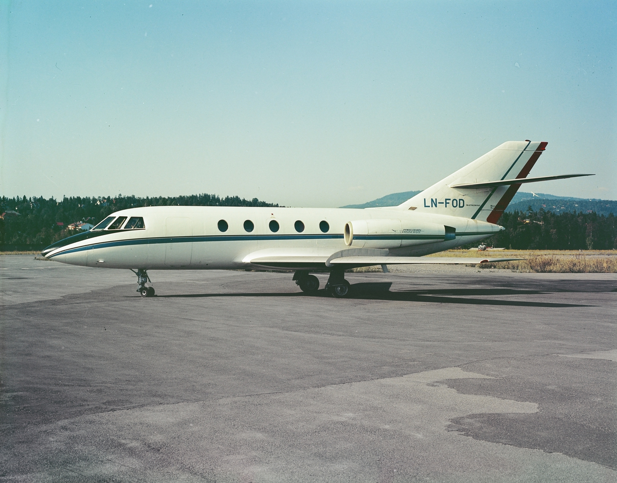 Dassault Falcon 20 of Fred Olsen Air Transport at Oslo Airport, Fornebu